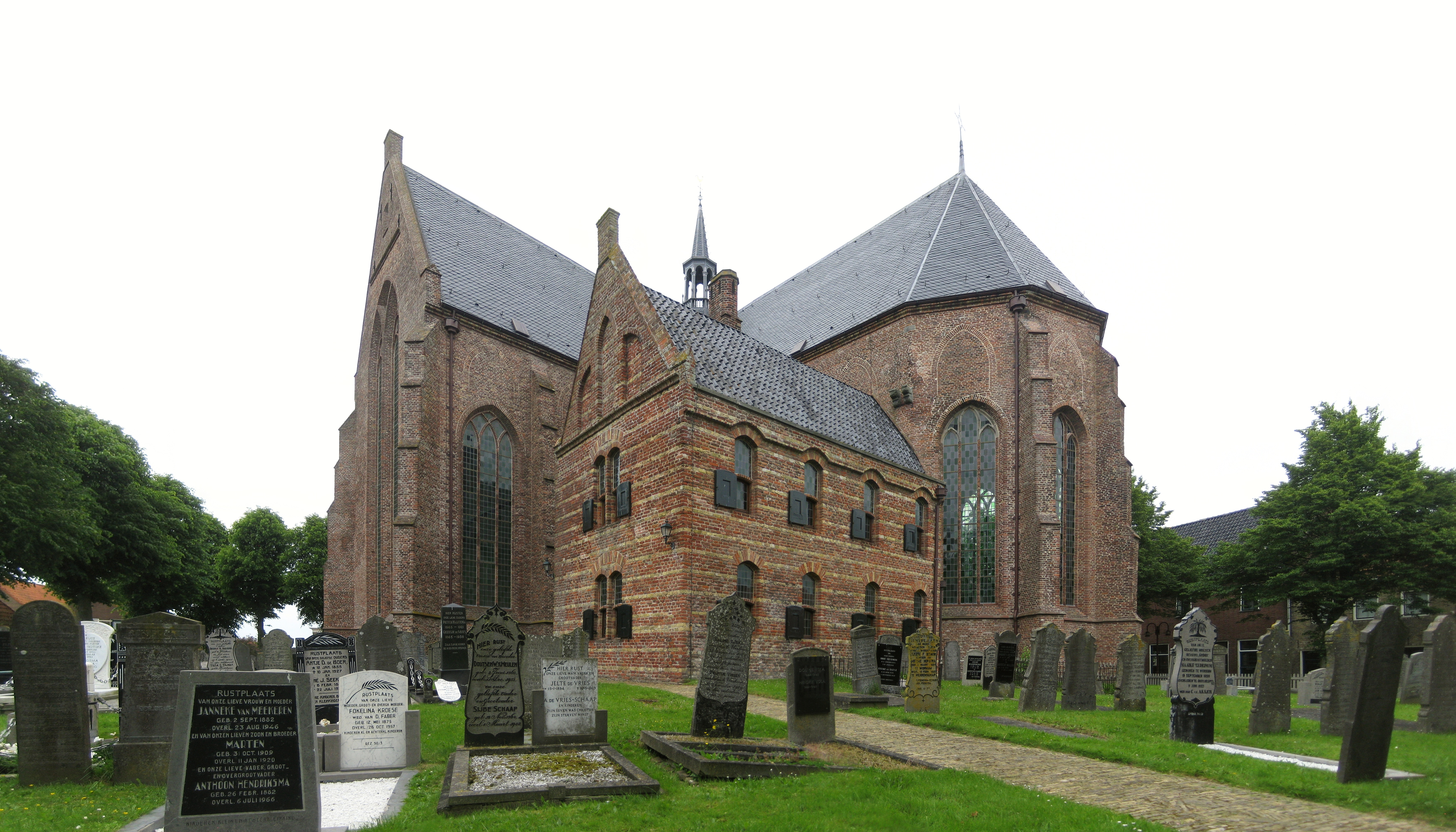 The Grote of Sint-Gertrudiskerk in the Dutch city of Workum, one of the Frisian eleven cities.